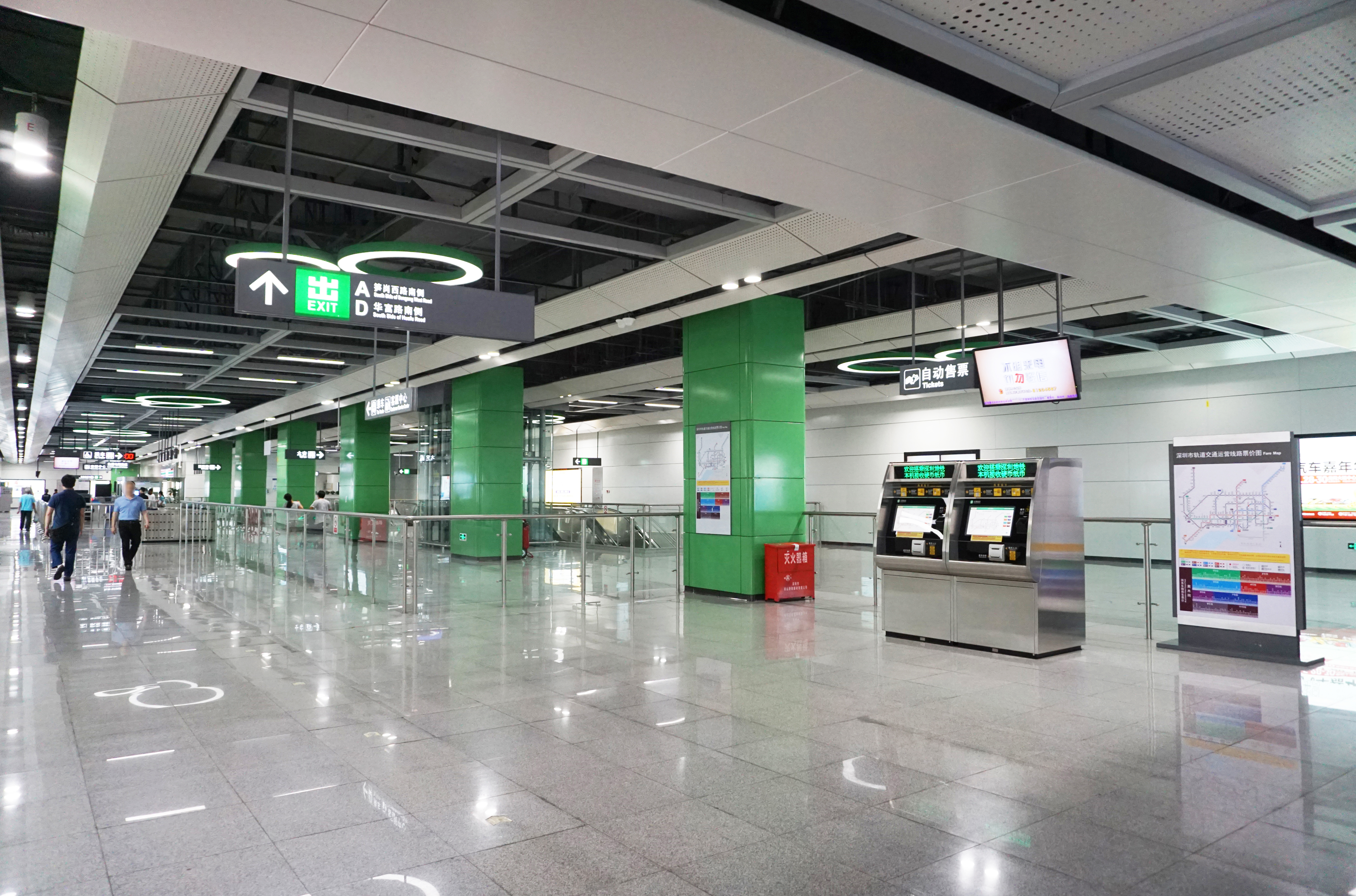 Huangmugang Station in Futian District, Shenzhen.